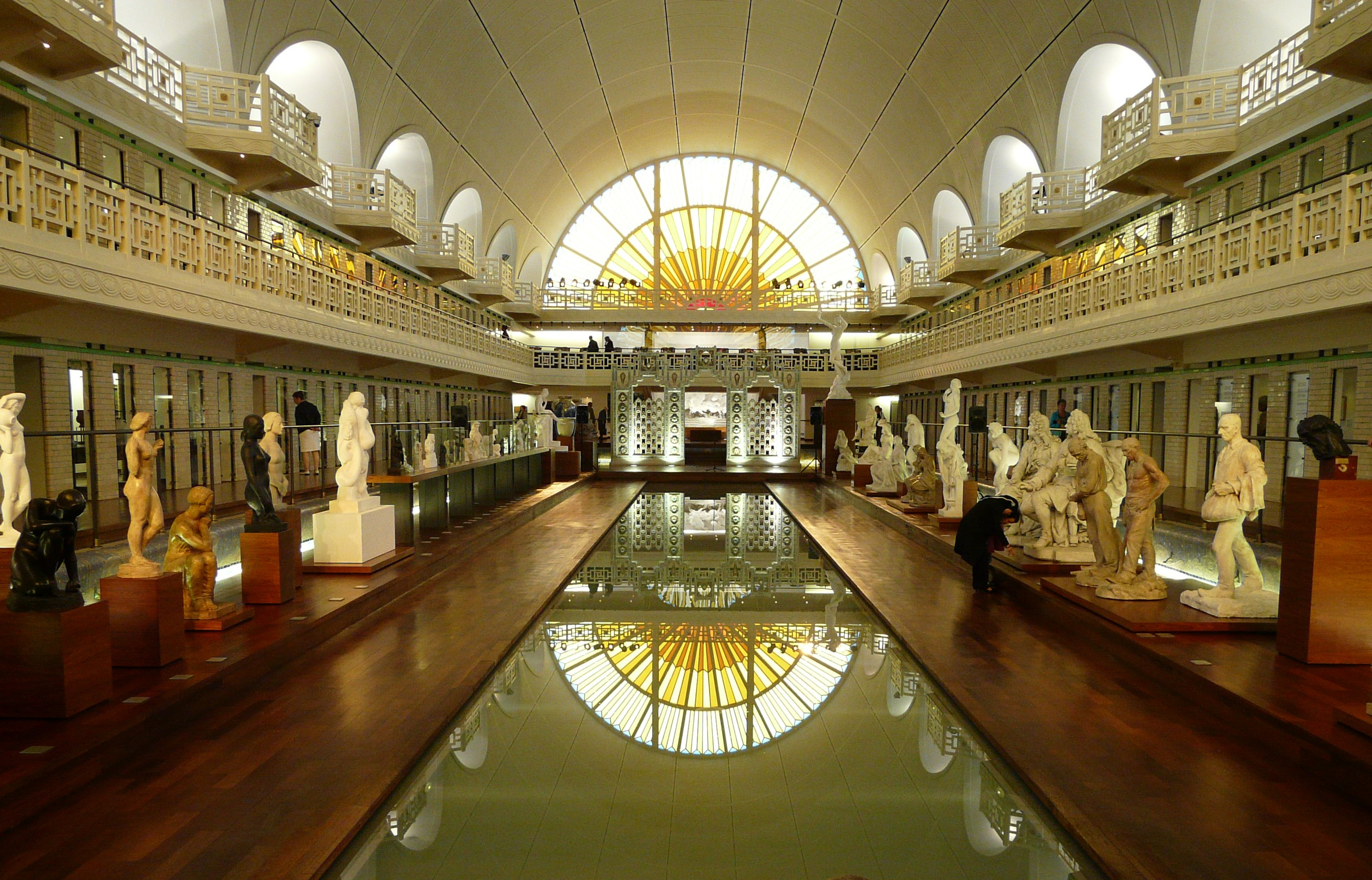 La Piscine, art and history museum in Roubaix (Nord - France)